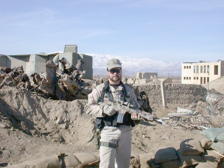 On March 4, 2002, Air Force Combat Controller John Chapman voluntarily joined a rescue team going into an al-Qaeda terrorist stronghold on Takur Ghar Mountain. Upon landing, the rescue team soon ran into enemy personnel, and Chapman killed two of them. While advancing on a machine gun nest, the team came under fire from three sides. At close range and with little cover, he exchanged fire with the enemy until dying from multiple wounds. Afterward, the rescue team leader unequivocally credited Chapman with having saved the lives of the entire rescue team. Tech. Sgt. John Chapman in theater. (U.S. Air Force photo)